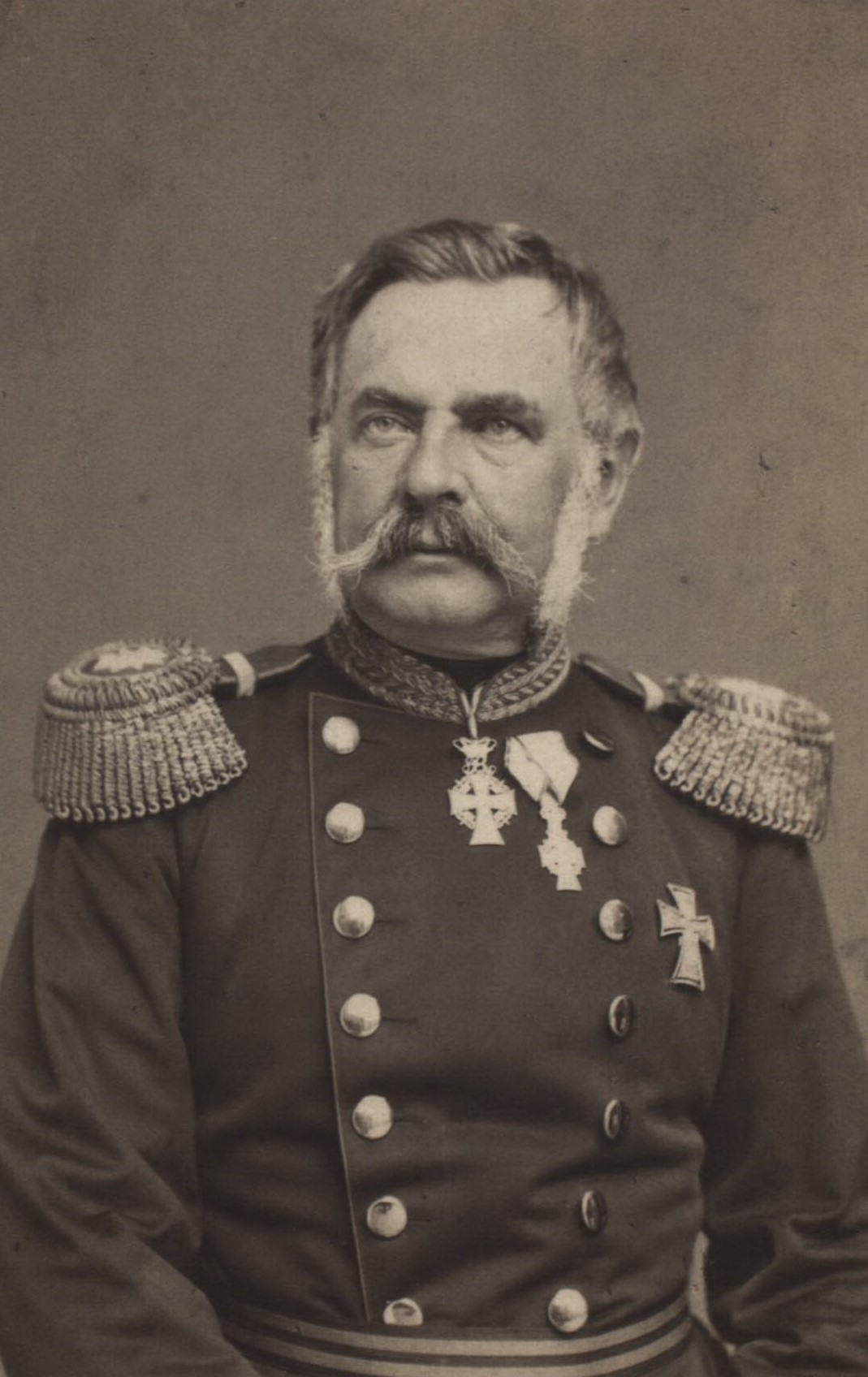 Johan Waldemar Neergaard (1810-1879), General of the Royal Danish Army and Minister of War